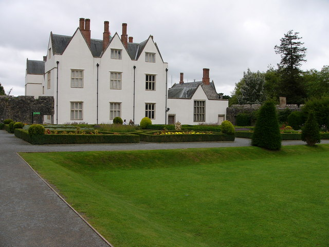 St Fagans Castle Peter le Sore raised a ringwork here after dispossessing the Welsh lord Meurig ap Hywell in 1091. In the early C14 the castle passed to the le Vele family by marriage, and in 1475 it passed to David Mathew when he married Alice le Vele. The descendants of their daughters sold the castle to Dr John Gibbon in c1560, who built this fine mansion in the court.